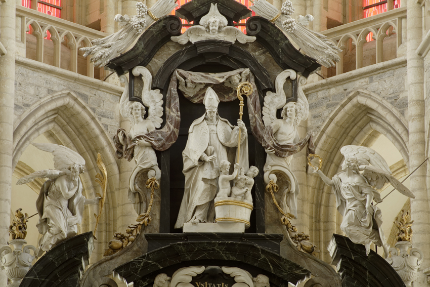 Sculpture representing St Nicholas with three children in a tub flanked by angels, made by Mattheus van Beveren, part of the main altar of the Sint-Niklaaskerk (Gent).